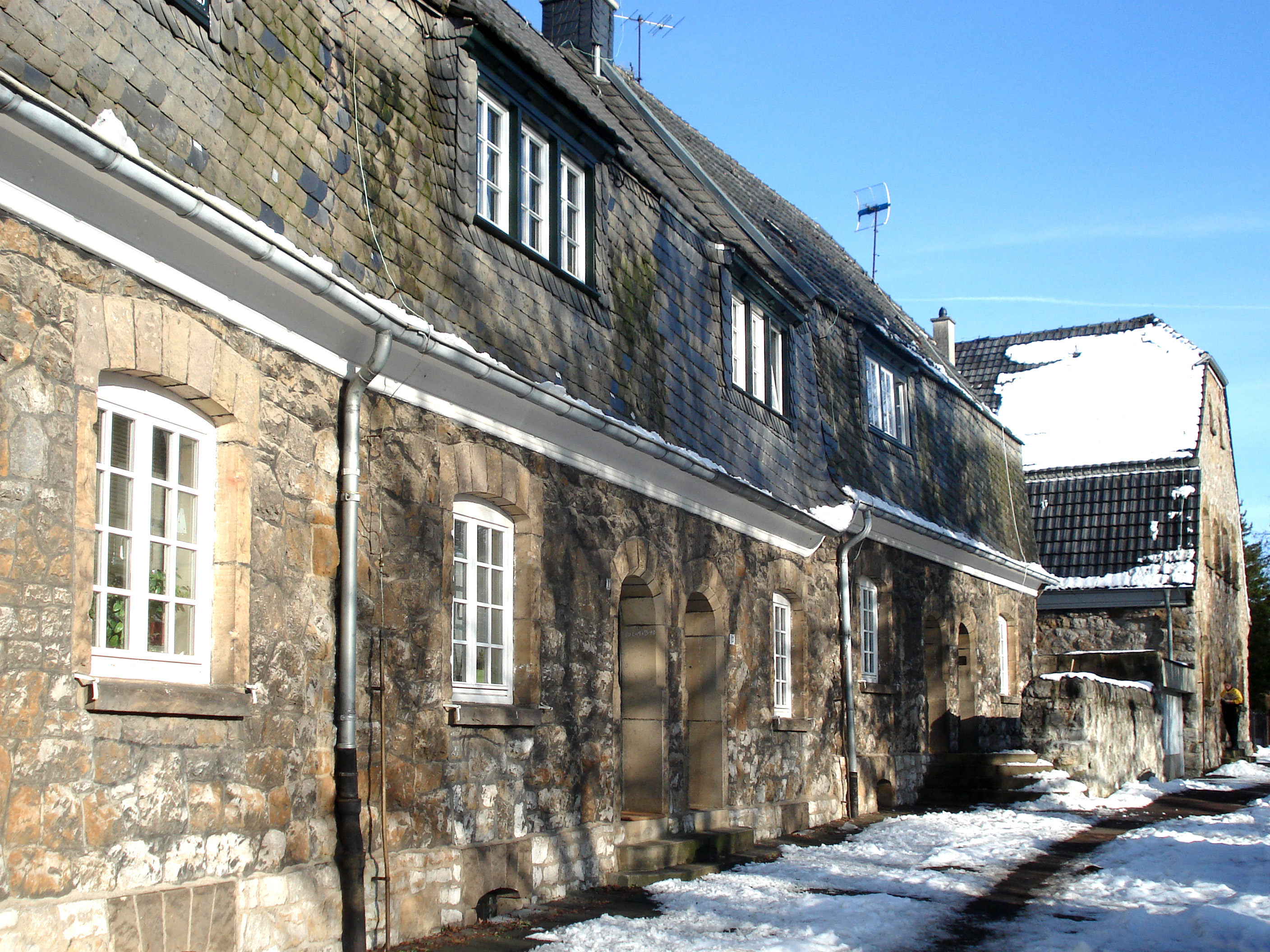 Working-class estate Walddorf Street, Hagen/Germany